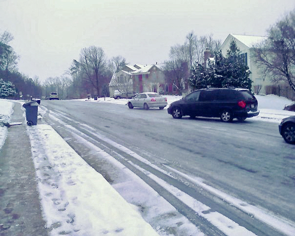 Photo of a load of ice on a residential street in Northern VA with cars unable to make it up the slope. A less purple version of another image